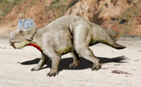 Zhuchengceratops